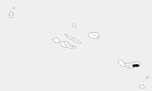 Map of the Azores highlighting Povoação.